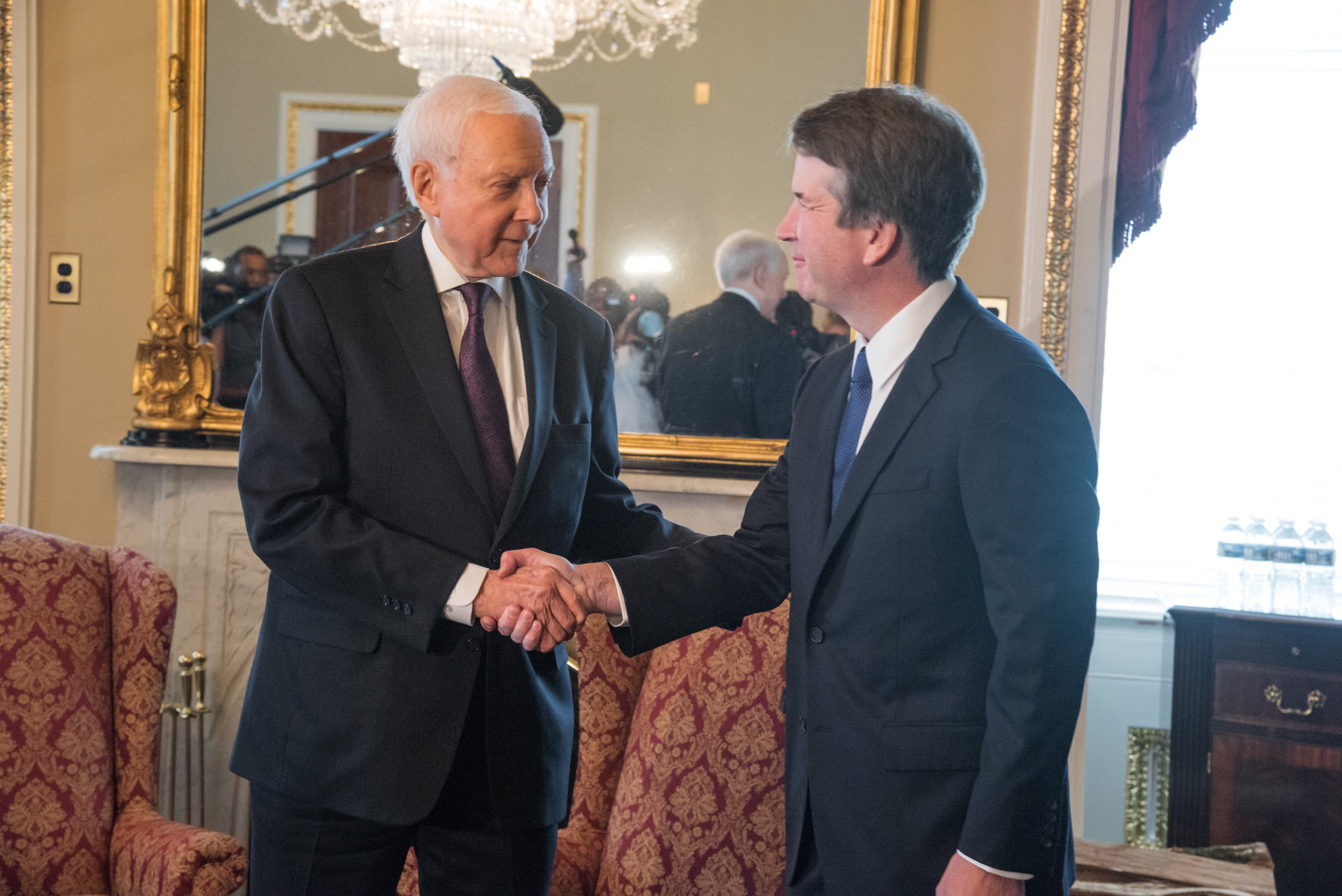 Tune in to @FoxNews on Sunday morning at 10AM, Senator Hatch will be on with @MariaBartiromo to discuss the confirmation process for Judge Kavanaugh. ConfirmKavanaugh